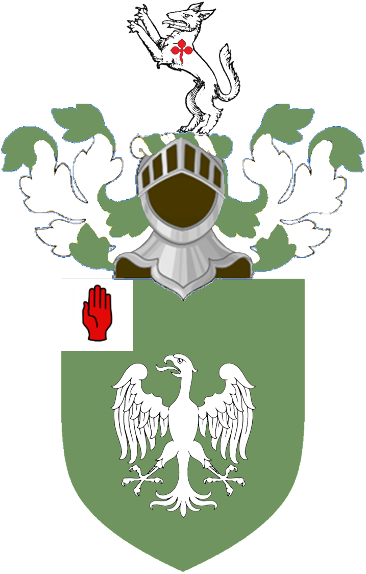 The armorial achievement of the Biddulph baronets of Westcombe